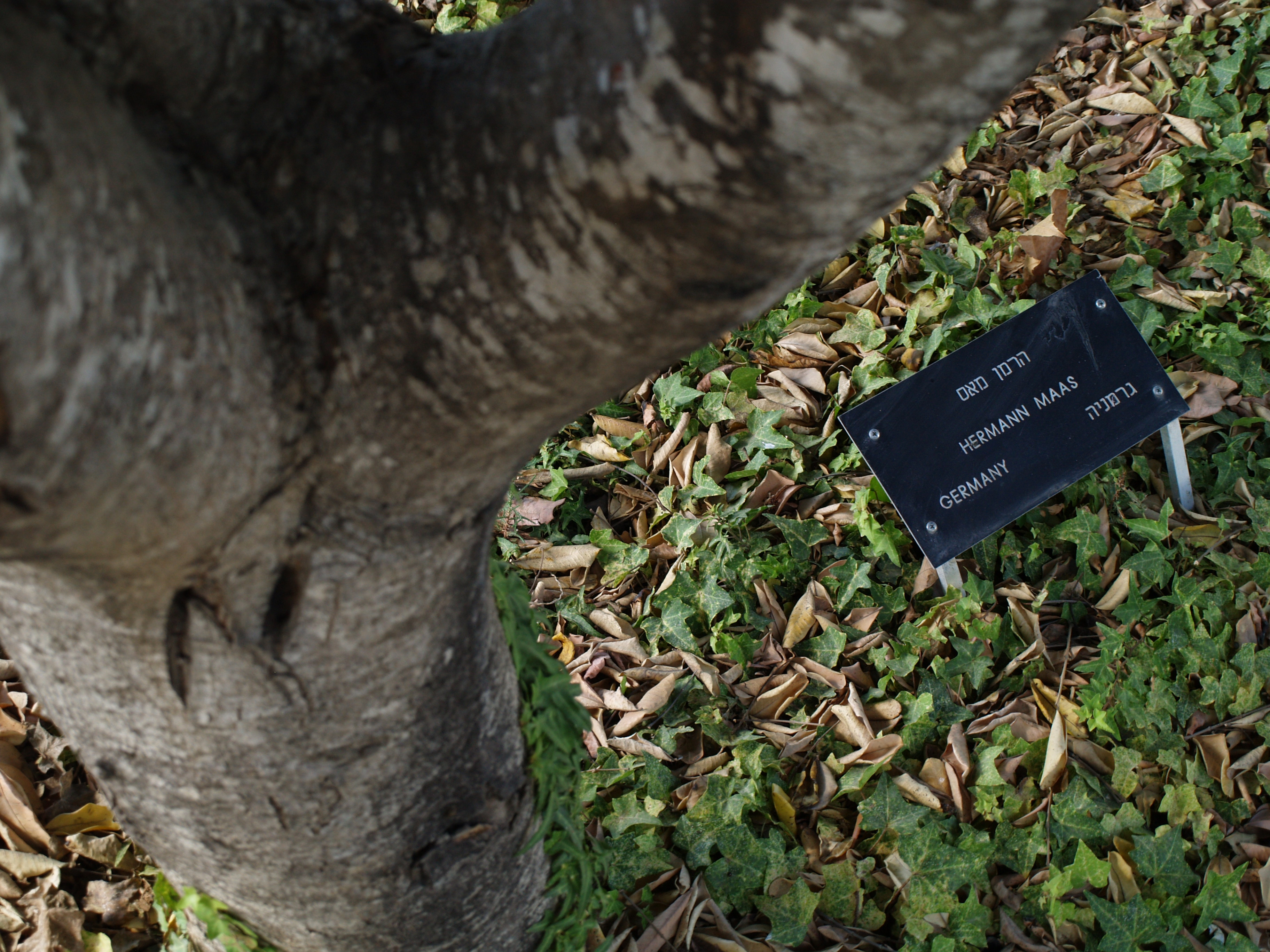 Tree for Hermann Maas as "Righteous Among The Nations" in Yad Vashem, Jerusalem.